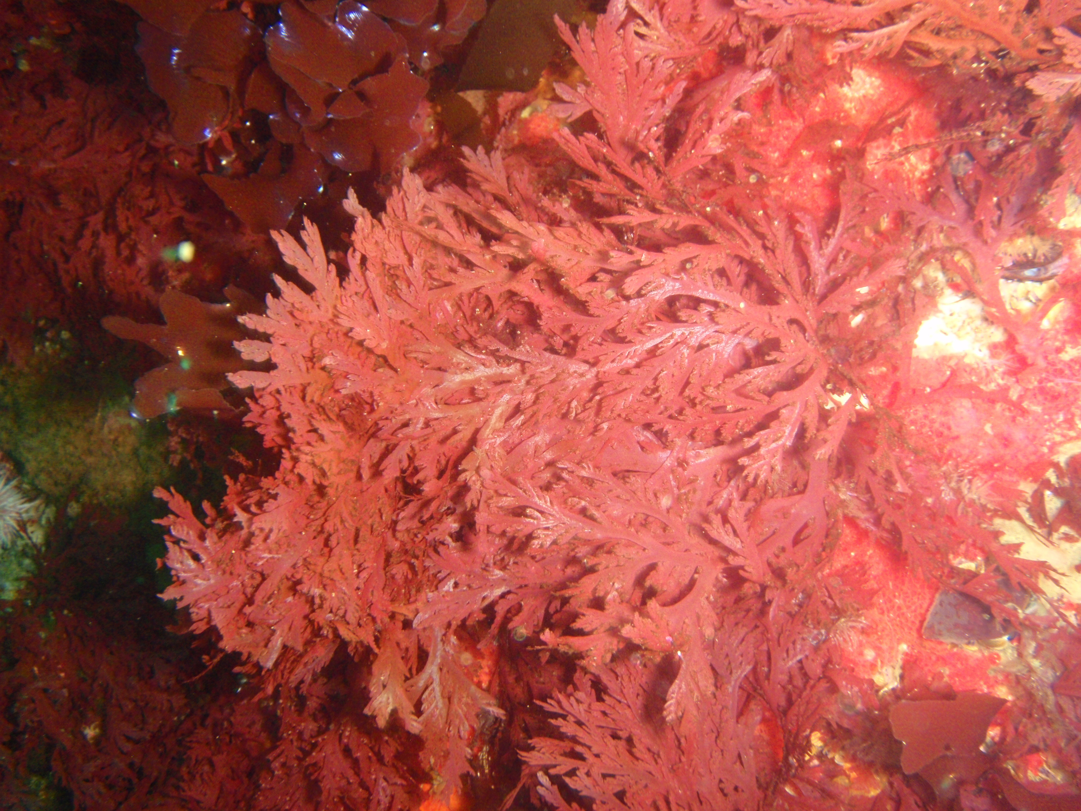 Red seaweeds cover the shallow reef tops, Cape Peninsula.